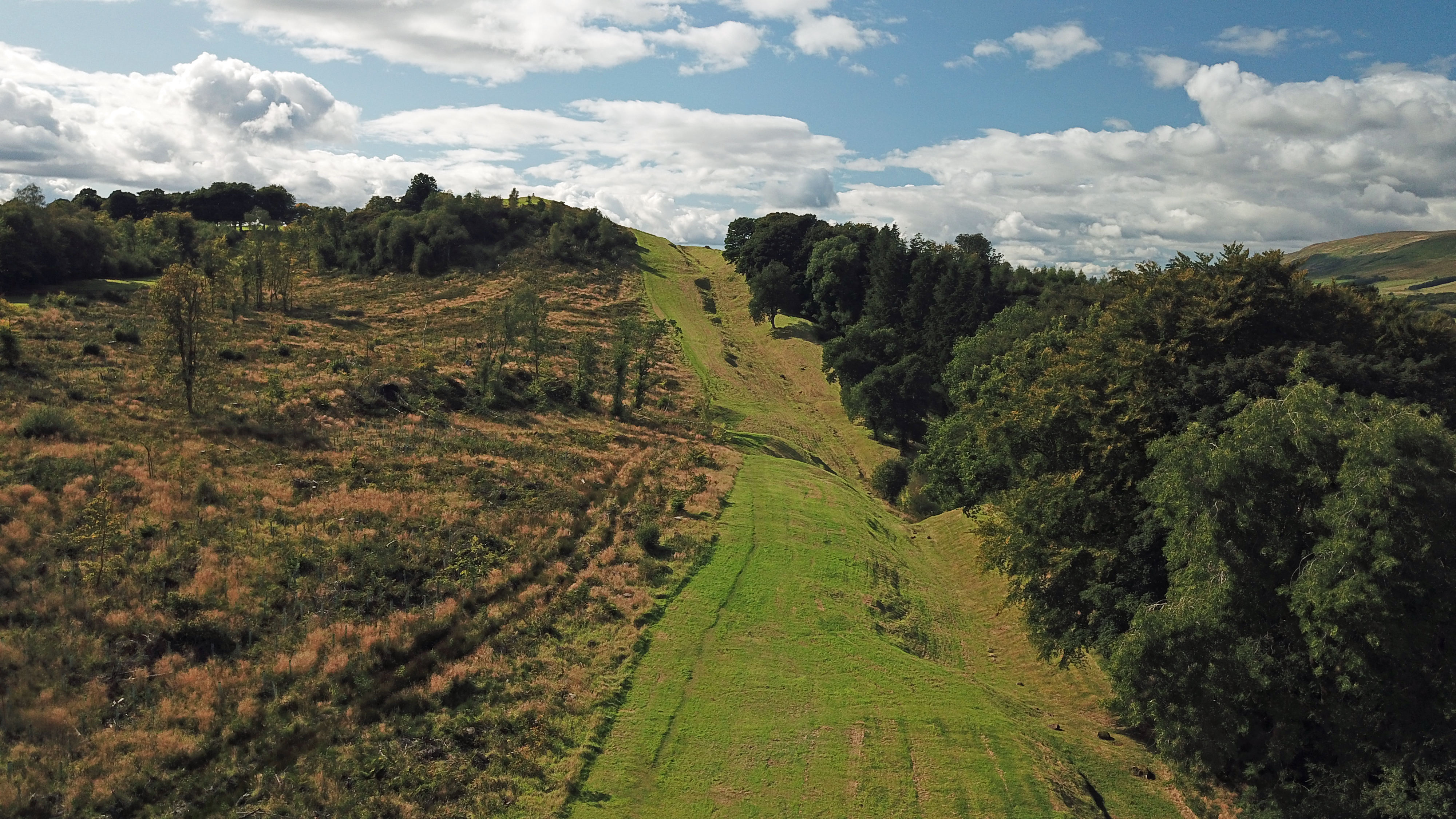 Castle Hill Wikidata has entry Q31107688 with data related to this item.